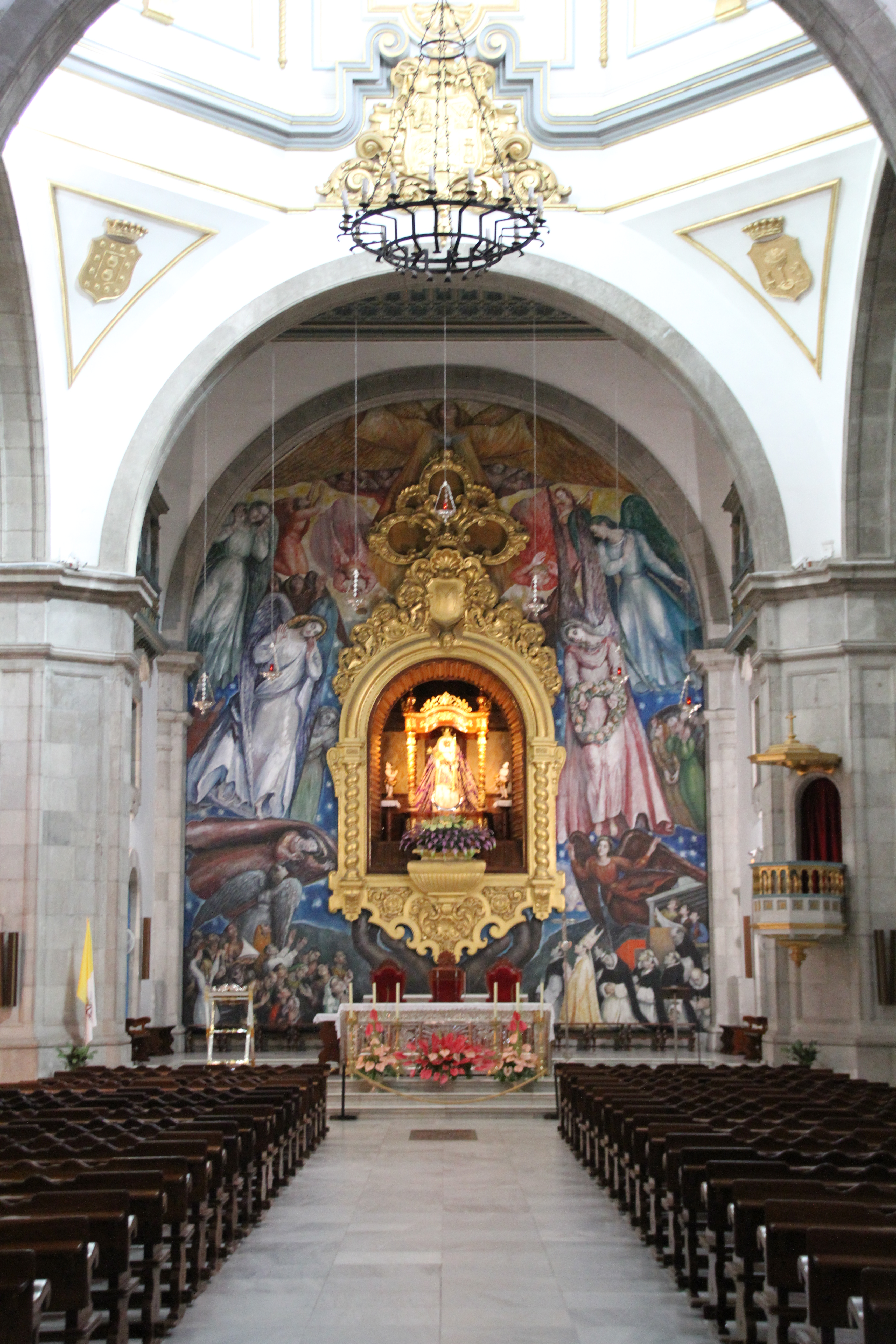 The basilica of the Virgin of la Candelaria, with the statue of the "Black Virgin" who is the protective saint guardian of the whole island group of the Canary Islands.